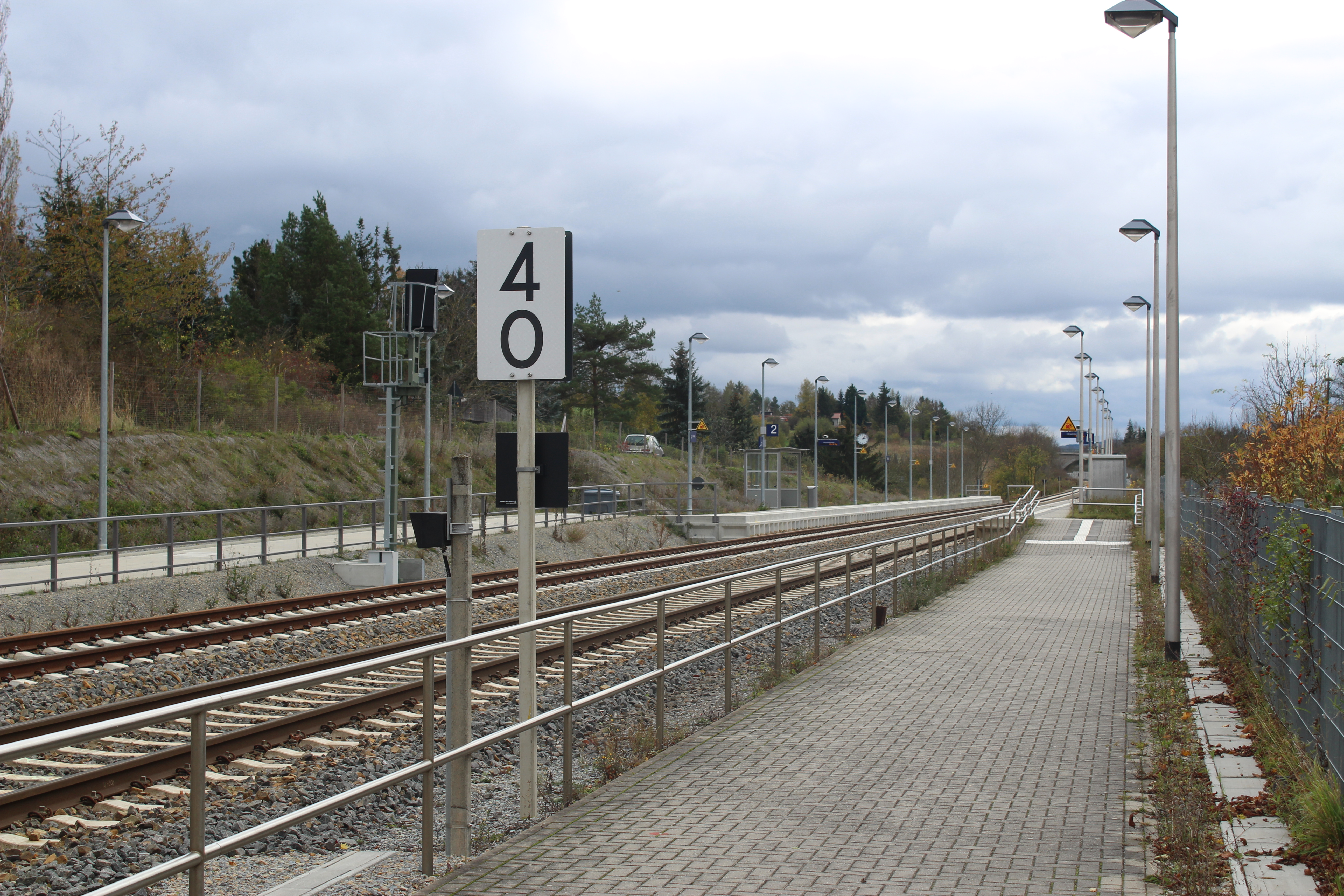 train station Oberweimar, platforms